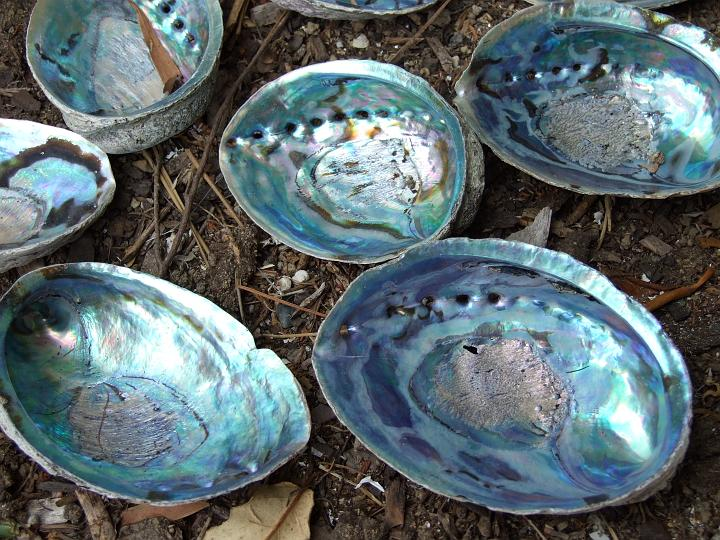 Blackfoot Paua, photo taken in New Zealand